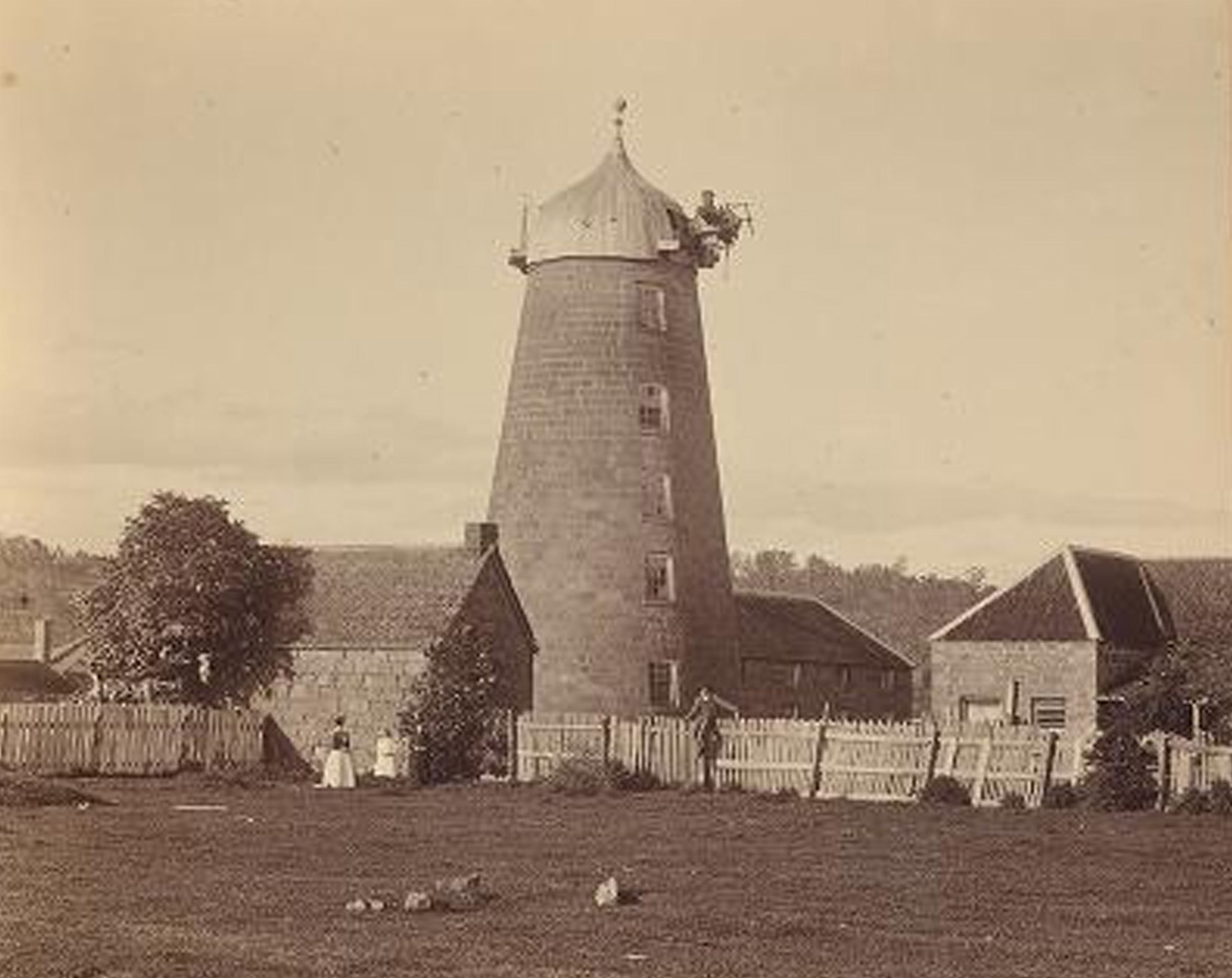 Callington Mill, Oatlands, Tasmania circa 1900 after the sails had been removed